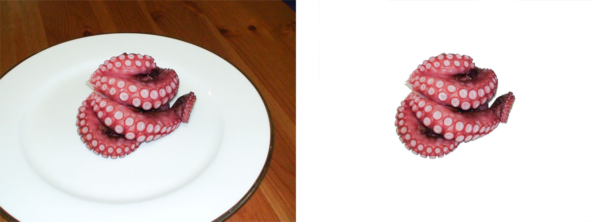 cooked octopus to illustrate the picture editing with background removed